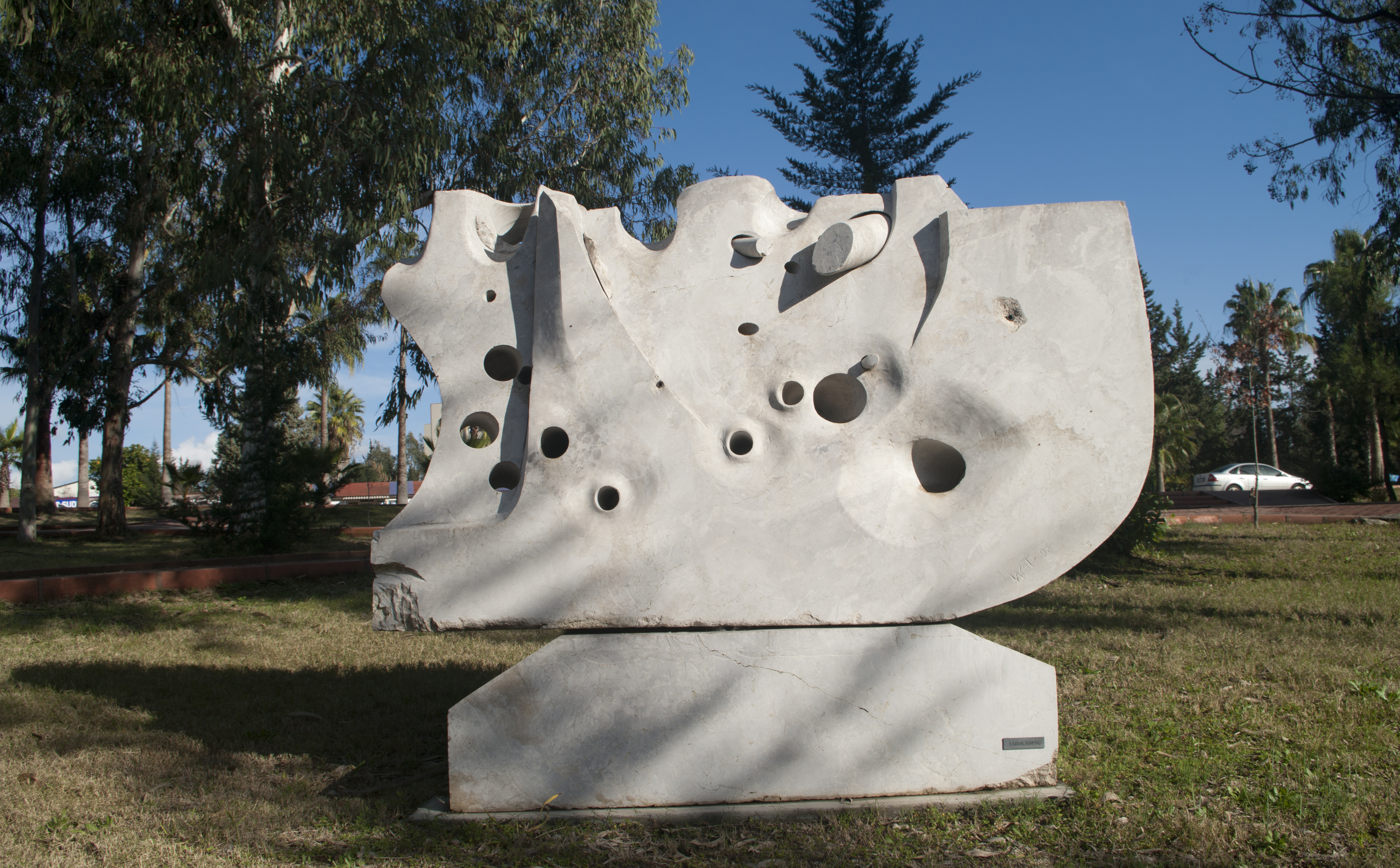 A sculpture by Varol Topaç at Çukurova University Campus